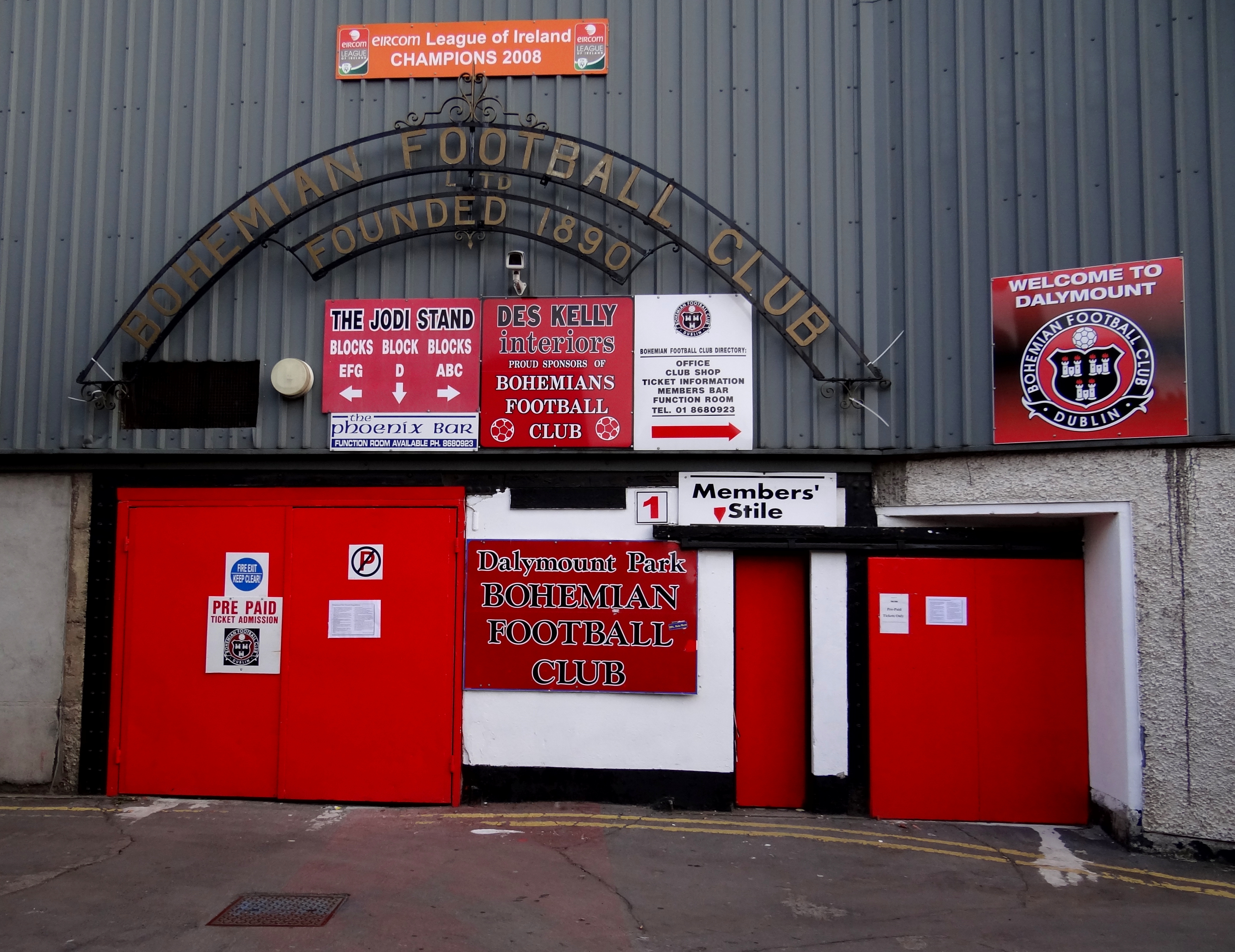 One of the entrances to Dalymount Park football stadium, home of Bohemian Football Club.